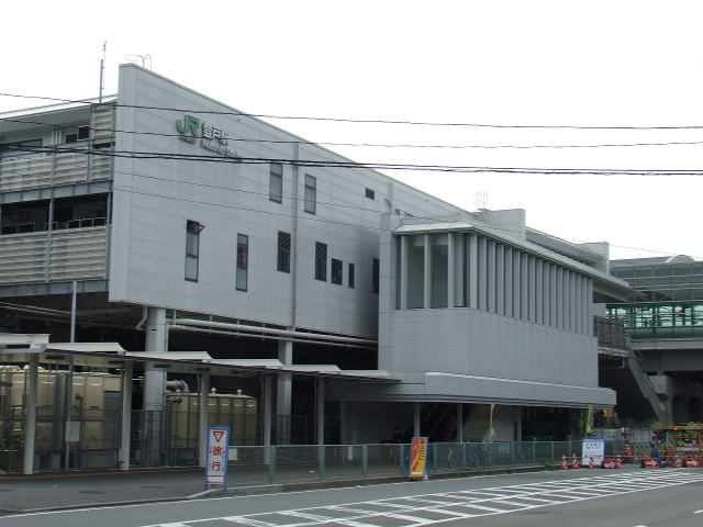 Station Building of Tama River Area Exit, JR East Noborito Station